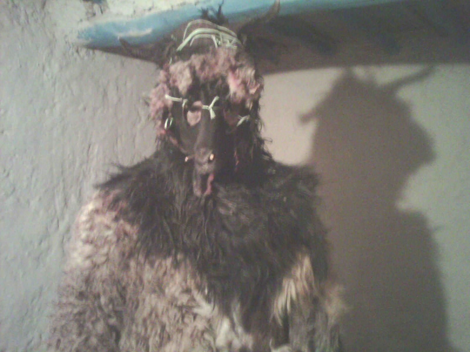 بوجلود او ما يسمى بويلماون عند الأمازيغ جنوب المغرب